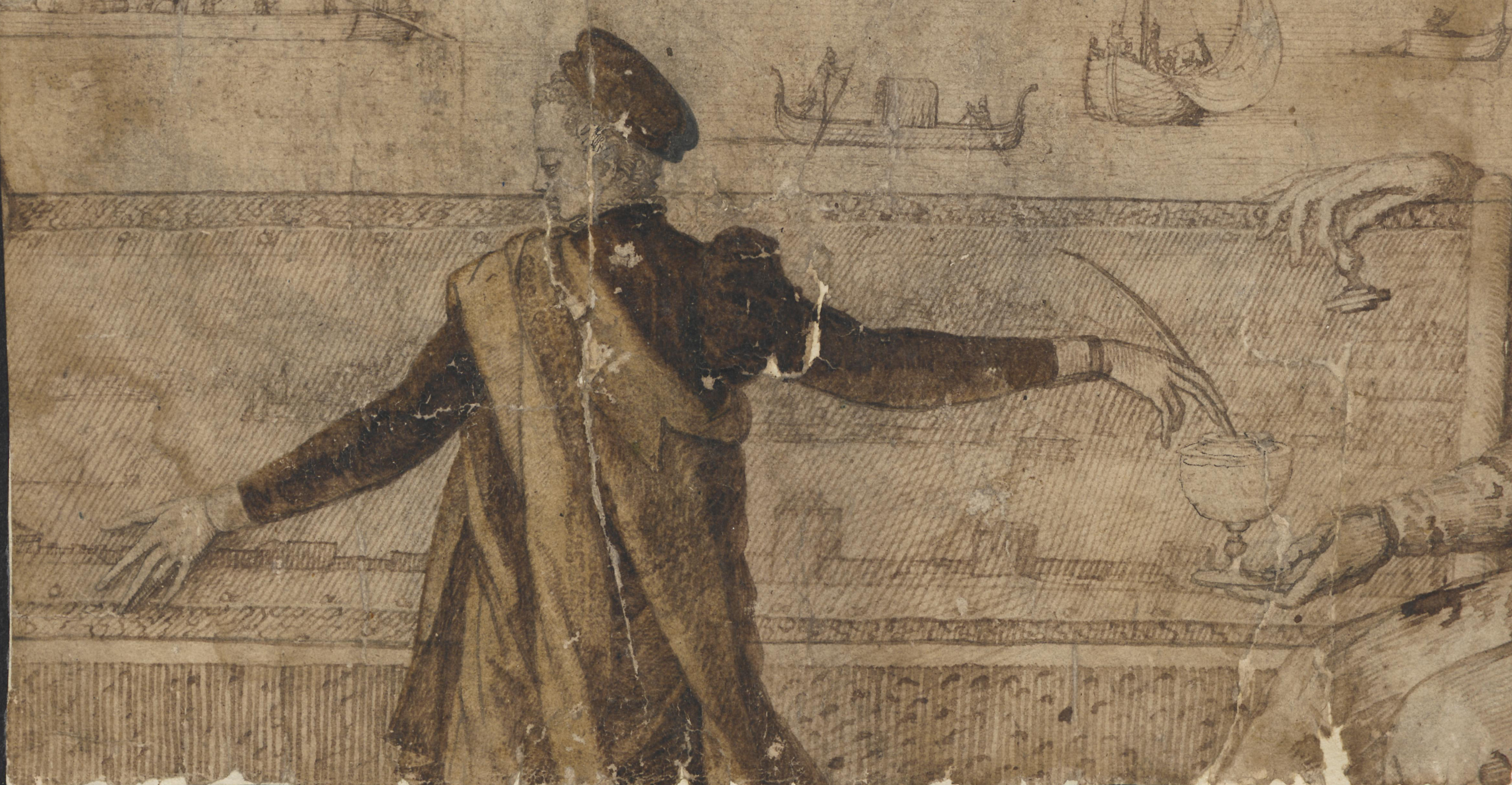 Prospect of Constantinople, Sheet 11, detail of Melchior Lorck creating the Prospect itself, 1559